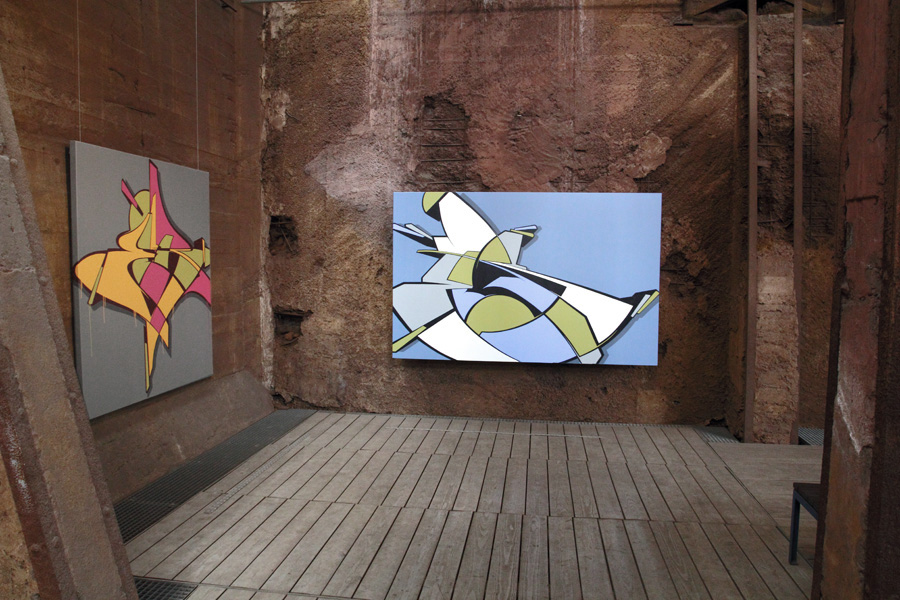 Opening at the Urban Art Biennale 2013